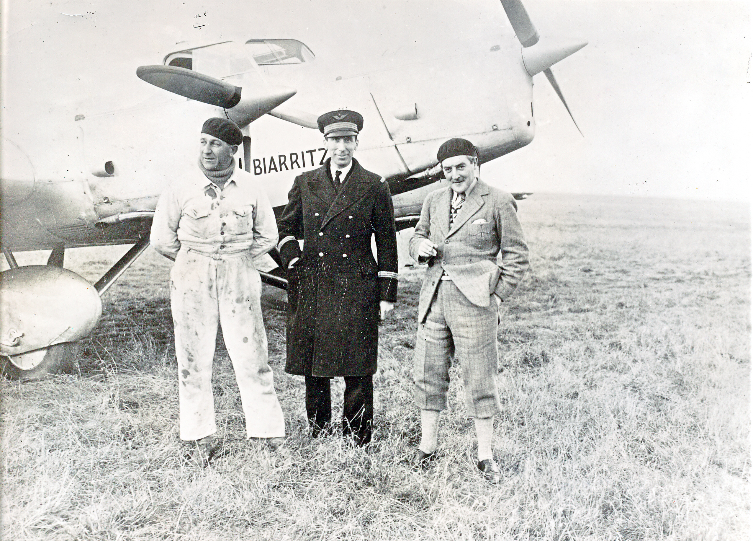 Crew to Biarritz, Le Bourget, april 1932